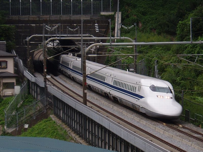 Central Japan Railway Company , Shinkansen type 700 between Shin-Yokohama Sta. and Odawara Sta.